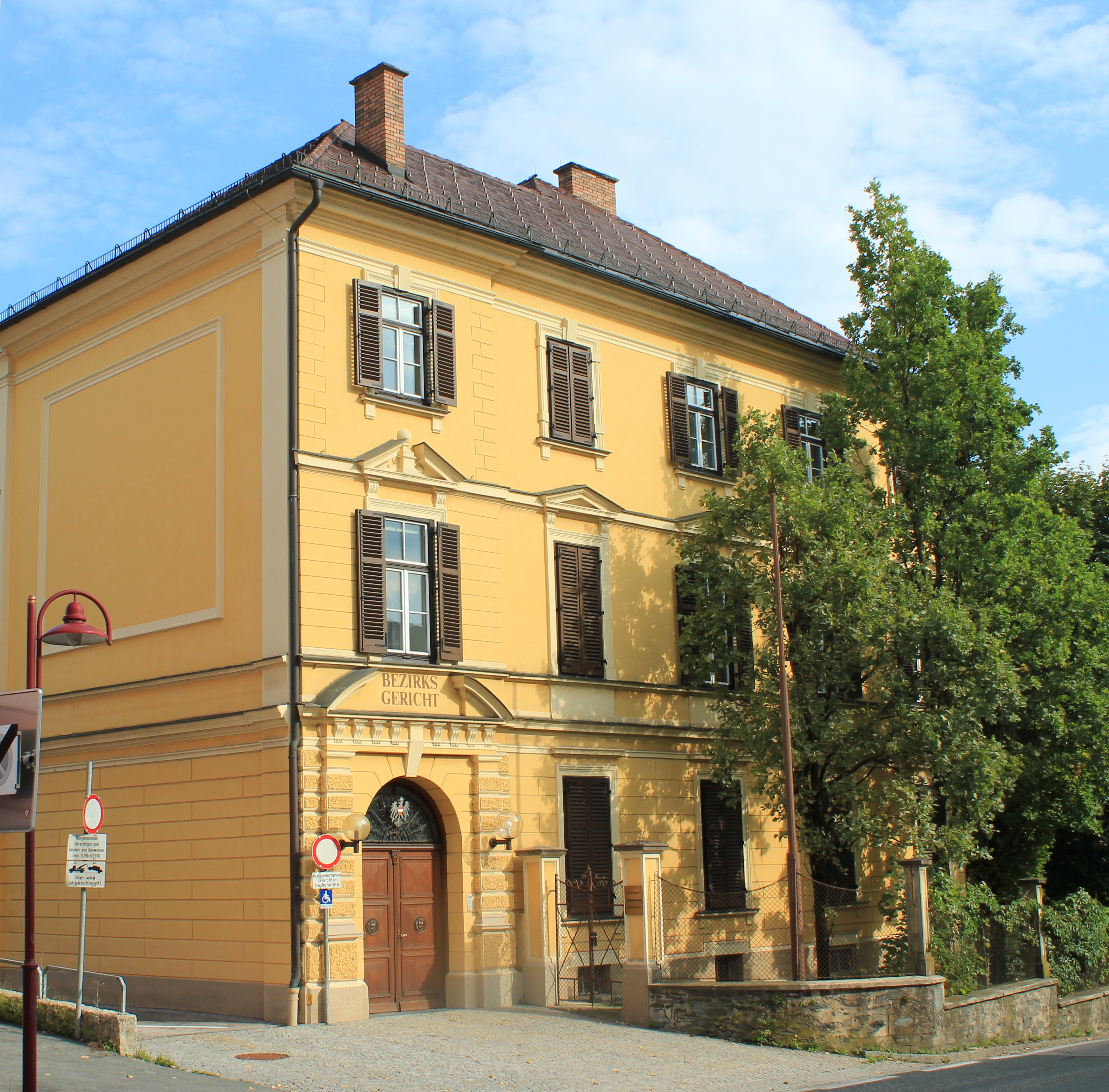 District-court in Völkermarkt